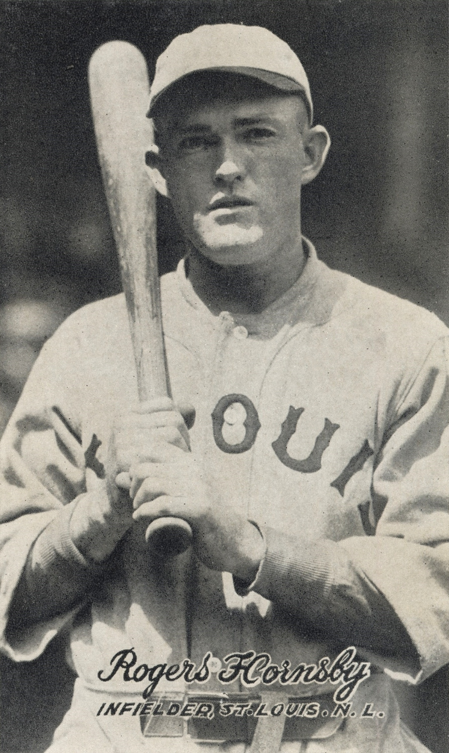 The image is from a 1921 Exhibits baseball card, showing Rogers Hornsby in a St. Louis Cardinals road uniform. Original image from